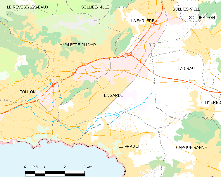 Map of French municipality La Garde